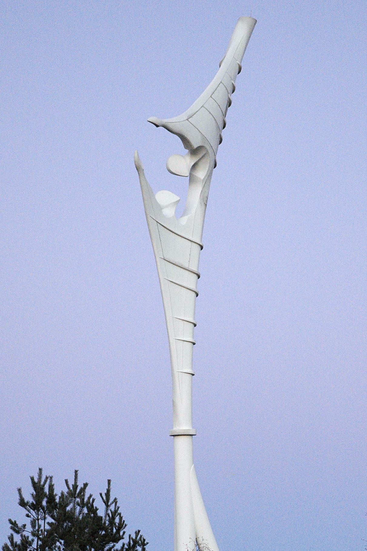 Photograph of "Encounter" statue in Birchwood. Picture taken by self.